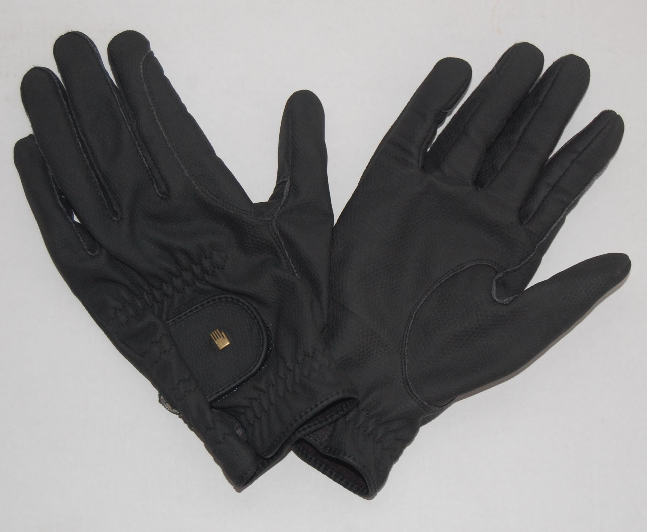 black riding gloves by Roeckl